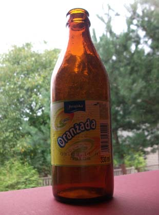 Orangeade